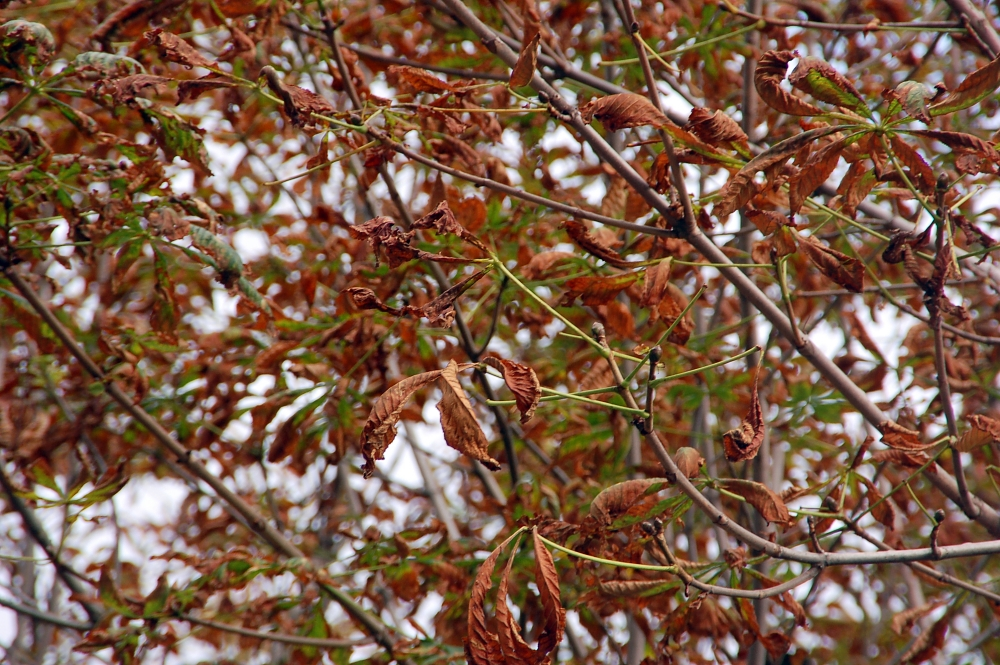 Cameraria ohridella, Saint-Gervais-les-Bains, Haute-Savoie, France